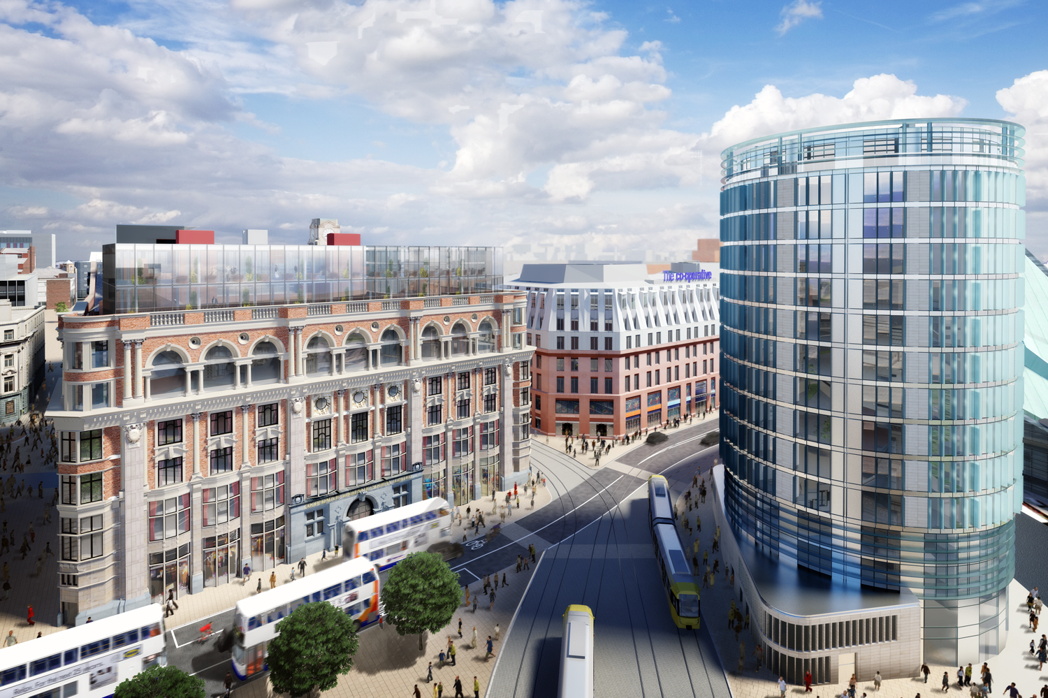 The Co-operative Group has revealed the first images of how the central Manchester NOMA development could appear upon completion in 10 - 15 years time. Winning entries from an international architecture competition have been included in the most up to date model to show how the later phases of the project could be designed. There are 8 active projects already under way as part of NOMA and these new images are the first time that these have all been shown together with preferred designs for future phases. The scheme will transform the 20-acres site around Victoria Station in to a vibrant new place to live, work and shop, as well as promising a wide range of recreational activities. NOMA will be built at a cost of £800m, the first phase of which is The Co-operative Group’s new head office, which is scheduled for completion in October 2012.